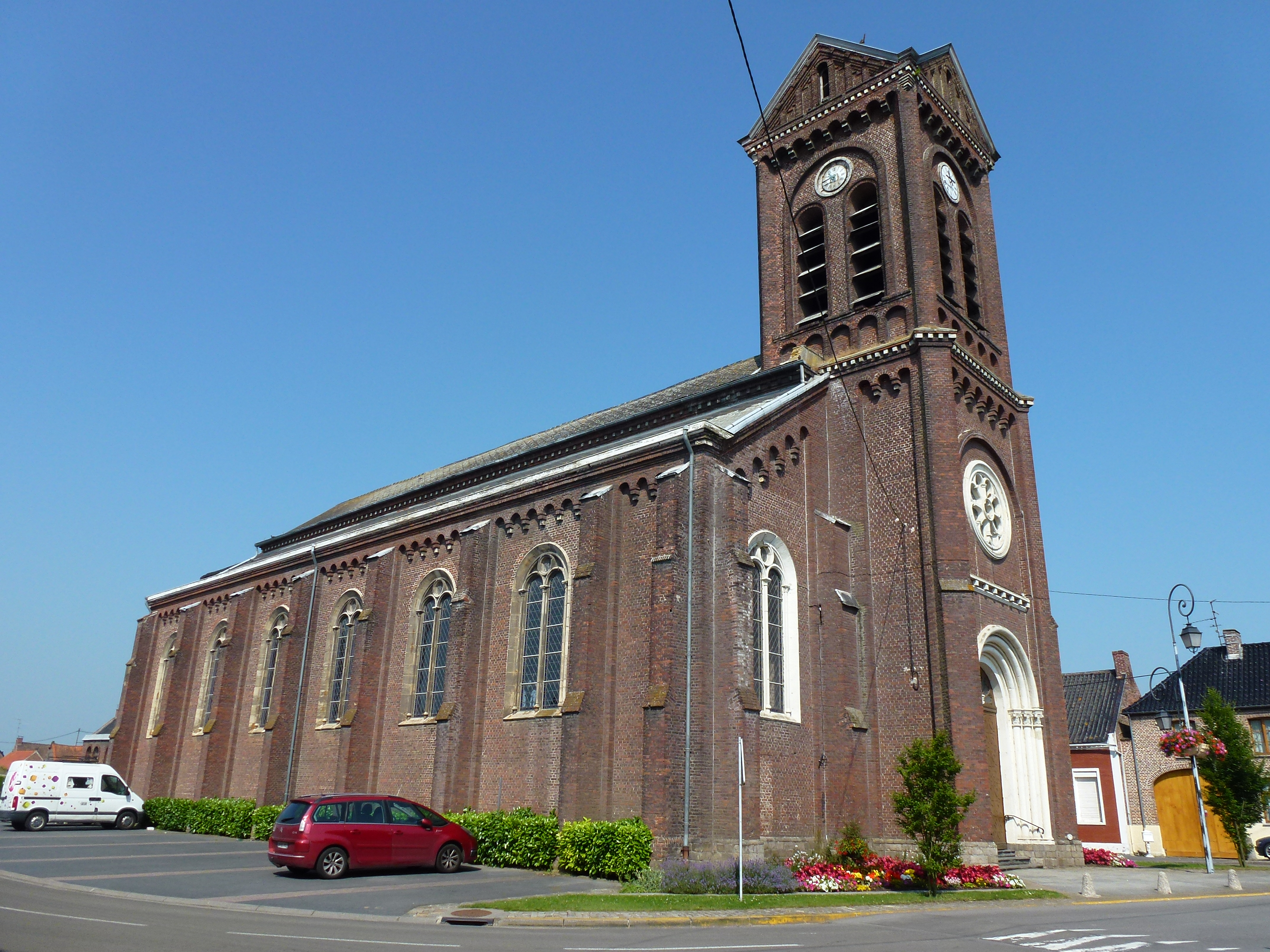 Brillon (Nord, Fr) église